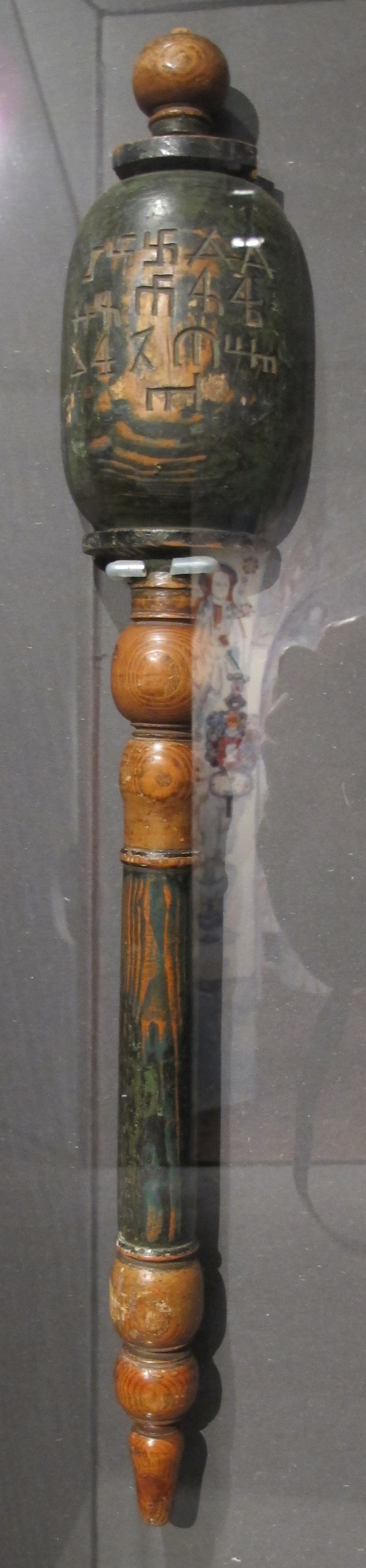 Alderman was the honorary title given to the oldest man in a village. Alderman's staff was both symbol of power and also a communications device. The staff is on display at the Rupriikki Media Museum, Tampere, Finland.